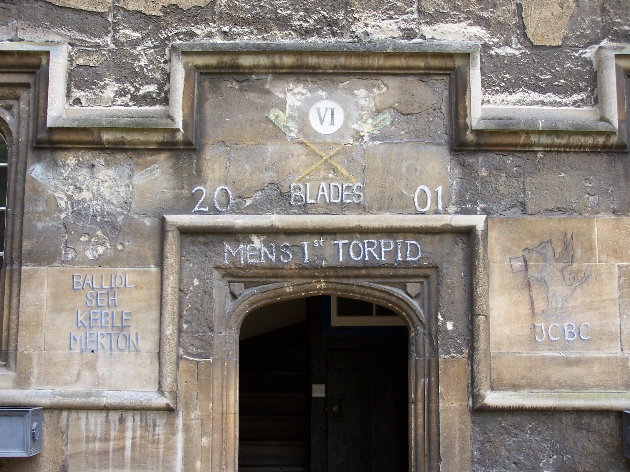 Staircase VI of Jesus College, Oxford, with graffiti celebrating the success of the college boat club in Torpids, the spring races.